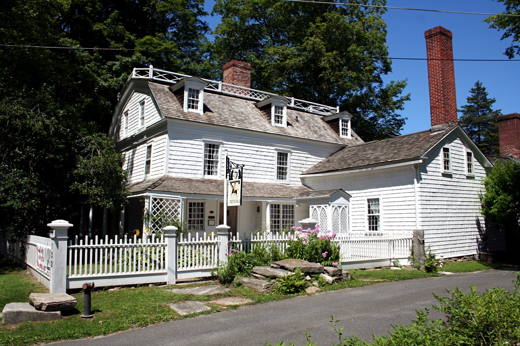 Depicted place: Keeler Tavern